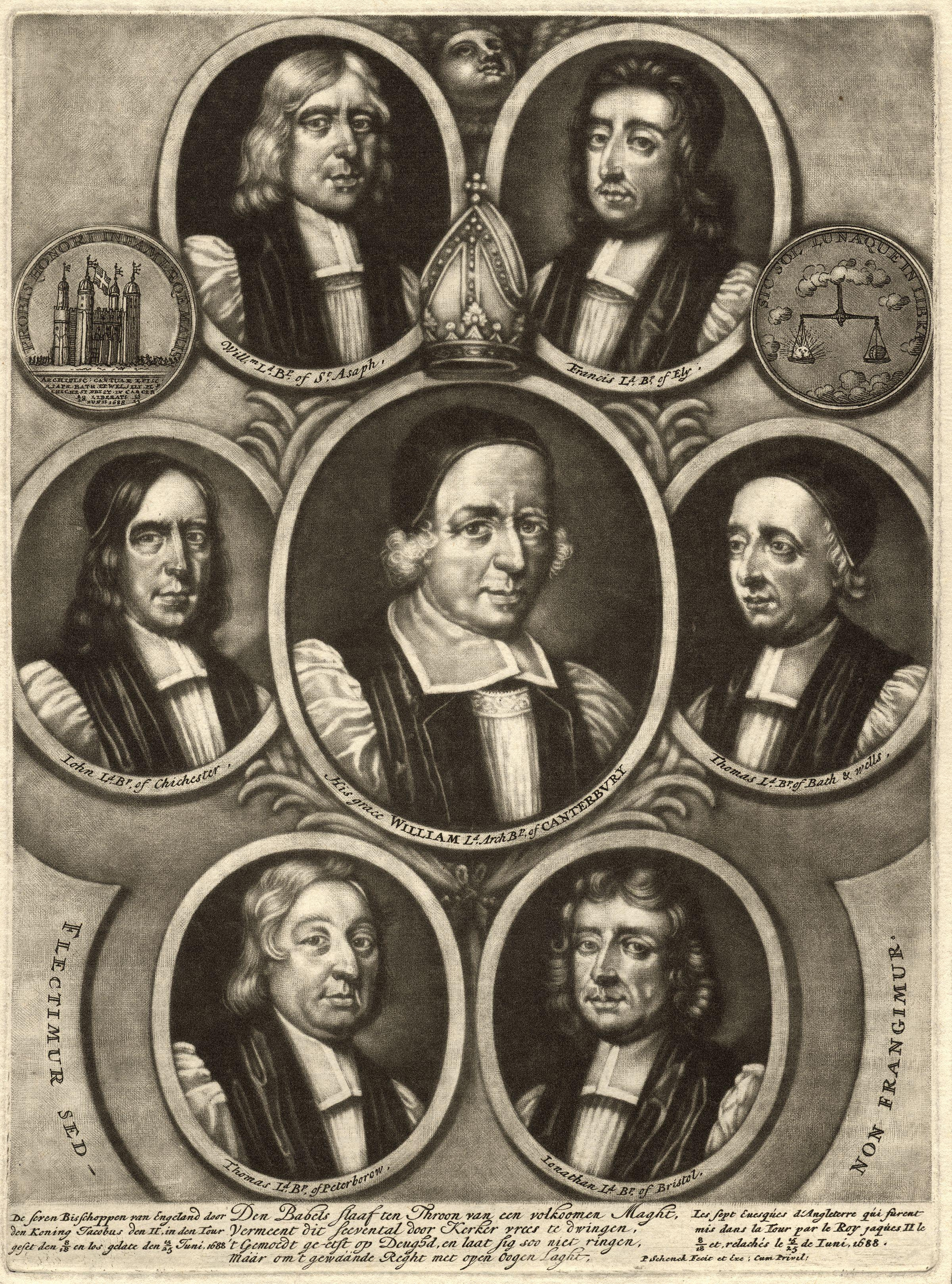 The Seven Bishops Committed to the Tower in 1688, by Pieter Schenck. All images in this batch have a known author, but have manually examined for strong evidence that the author was dead before 1939, such as approximate death dates, birth dates, floruit dates, and publication dates.